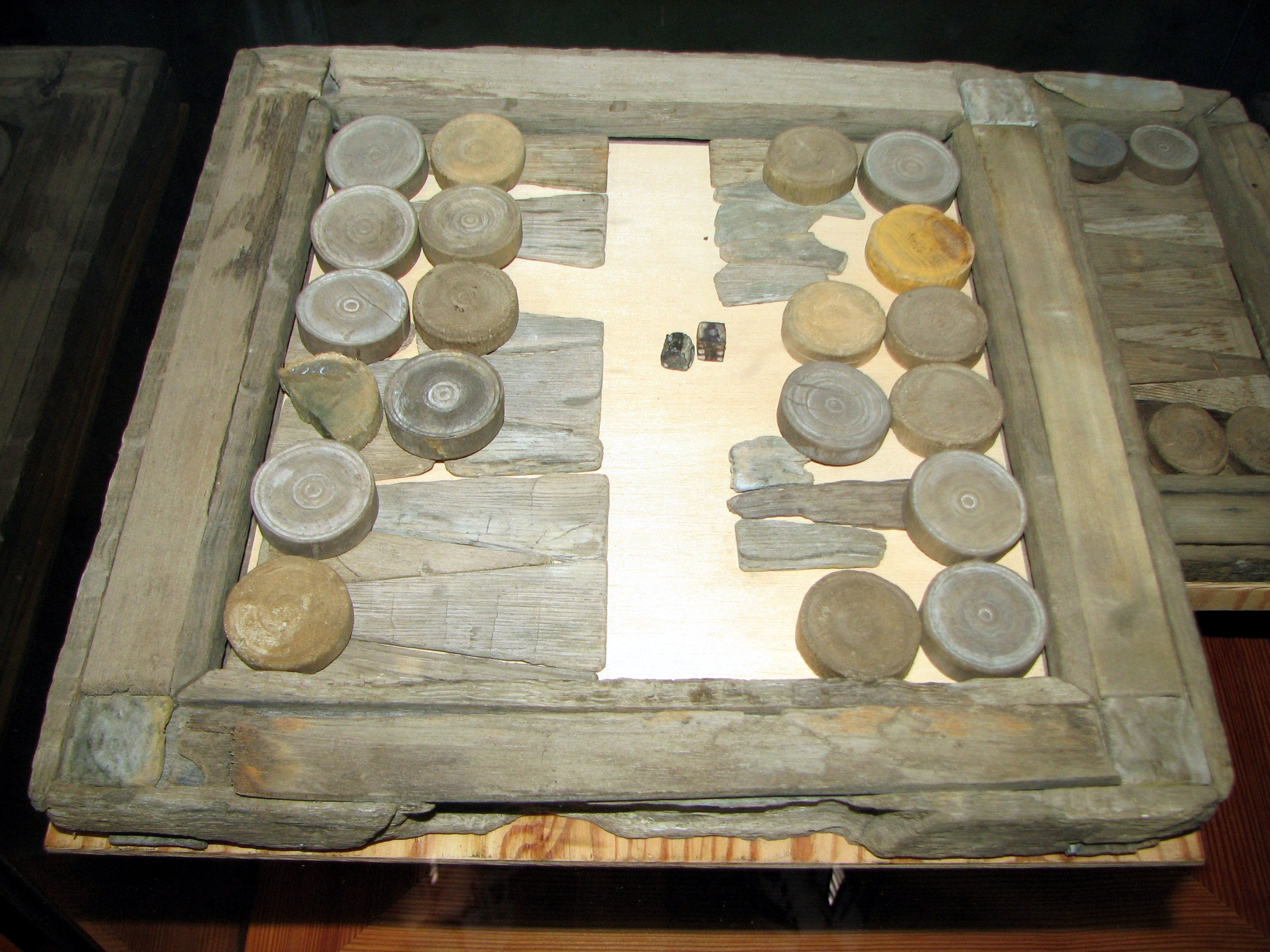 Old backgammon game recovered from the Vasa, sunk in 1628.